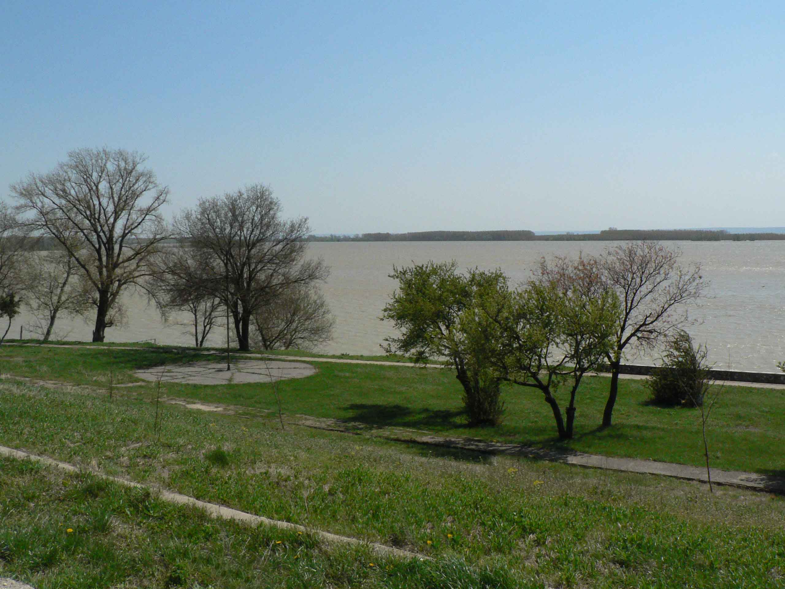 Danube in Corabia, Romania